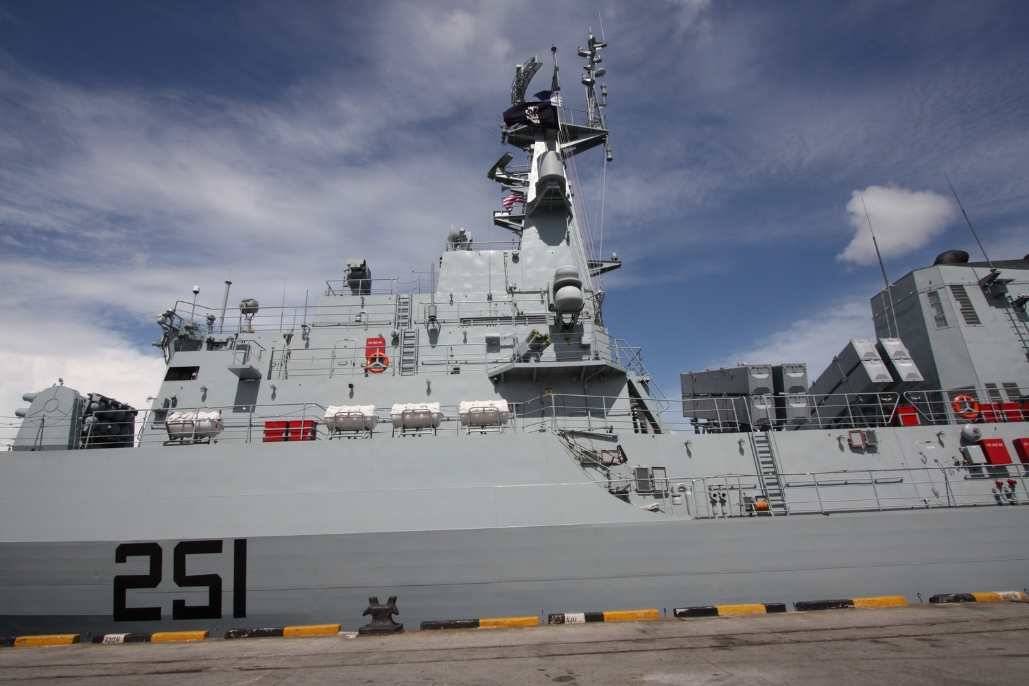 The side of the PNS Zulfiquar, a Pakistan Navy frigate. This picture was taken during the ship's goodwill visit to Port Klang, Malaysia, in August 2009.